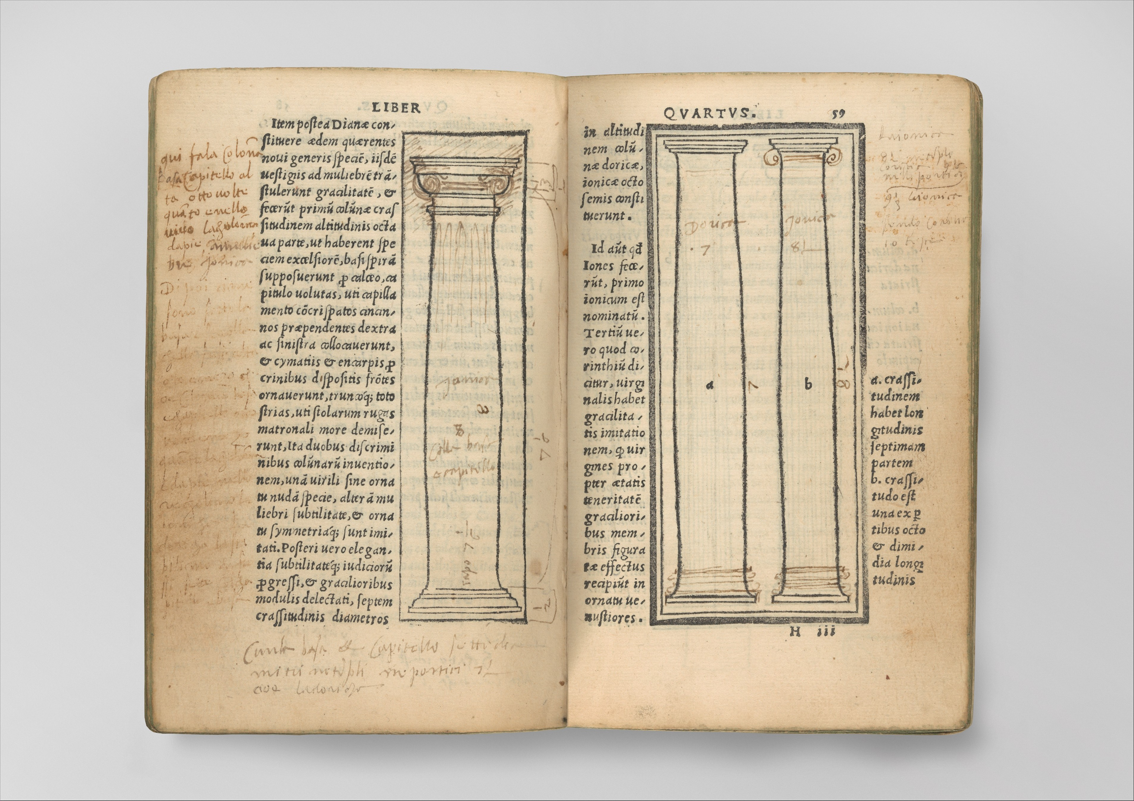 Book ; Ornament and architecture; Books